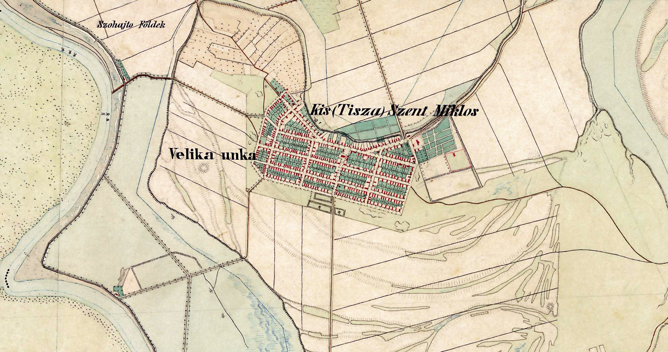 Ostojićevo, portion of map from the 2nd Military Survey of the Habsburg Empire